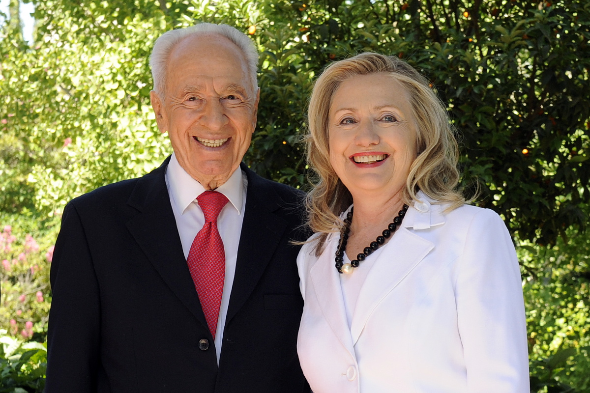 Secretary of State Hillary Rodham Clinton meets with Israeli President Shimon Peres at the President's Residence in Jerusalem